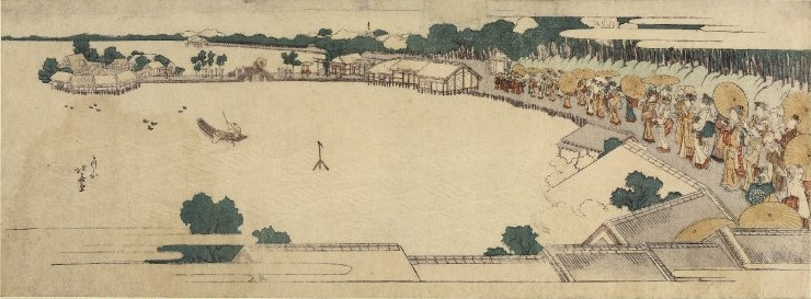 yoko-nagaban surimono by Hokusai, bijin promenading on the seashore, c. 1810